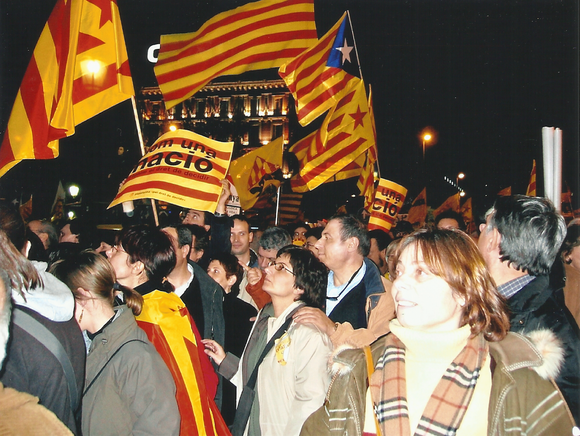 Demonstration entitled "Som una Nació i tenim el dret de decidir" (We are a Nation and we have the right to decide), held in Barcelona, Catalonia, the February 18th, 2006.